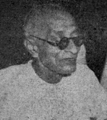 C. Rajagopalachari (Rajaji) speaking at a public meeting